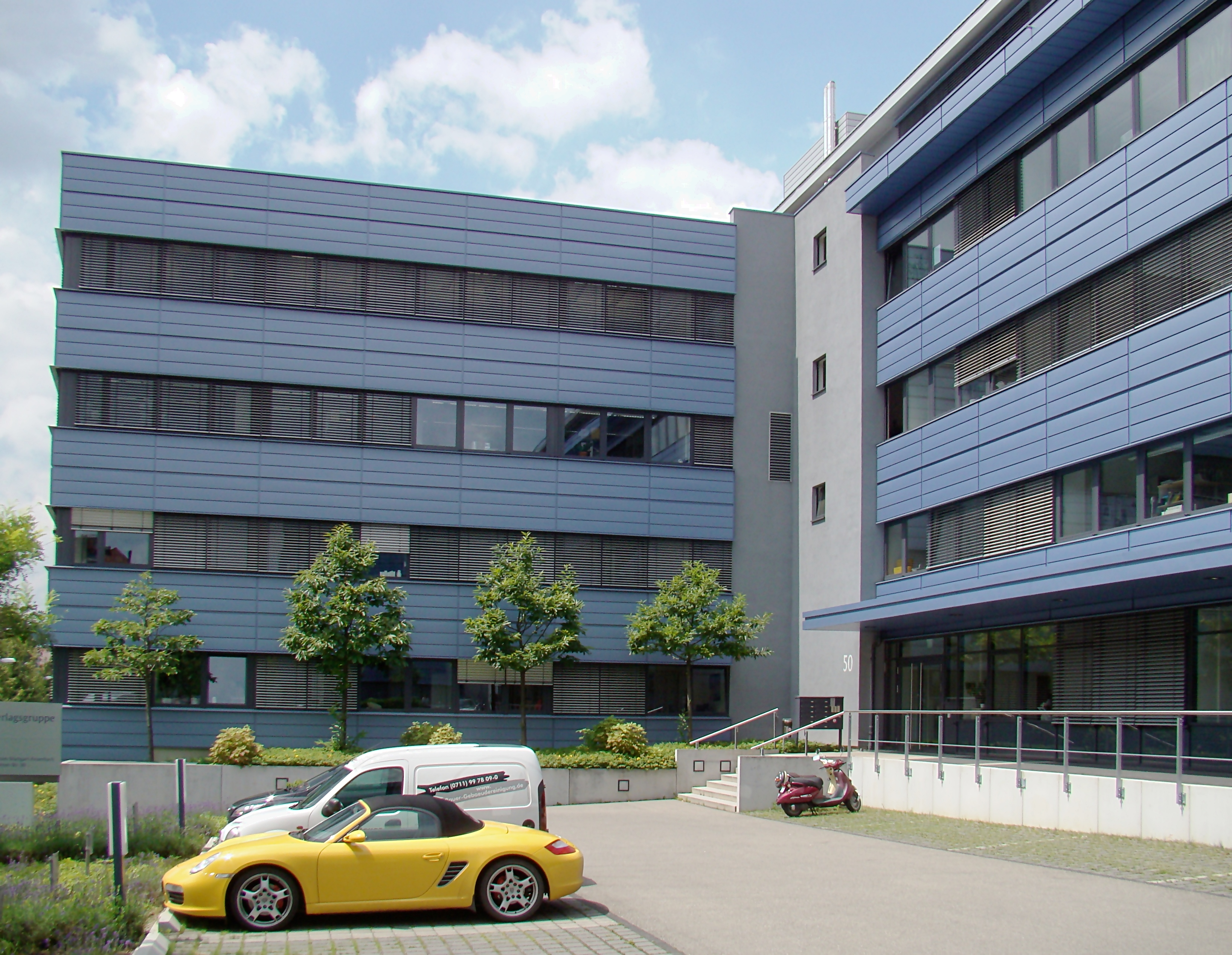 Second house of the Thieme publishing group in Stuttgart-Feuerbach